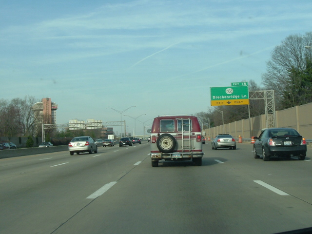 Watterson X-Way LOUKY